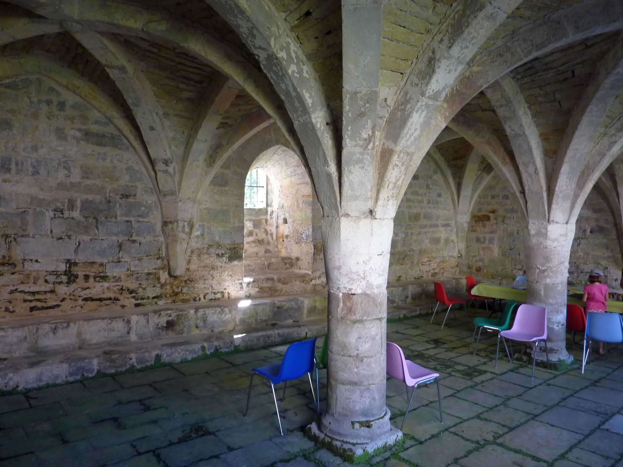 Chapter House (Abbaye de Beaulieu-en-Rouergue)